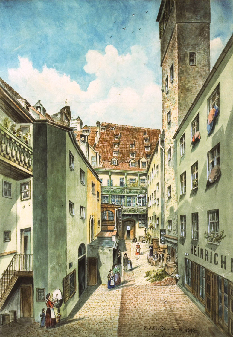 Löwenturm (lions tower in Munich